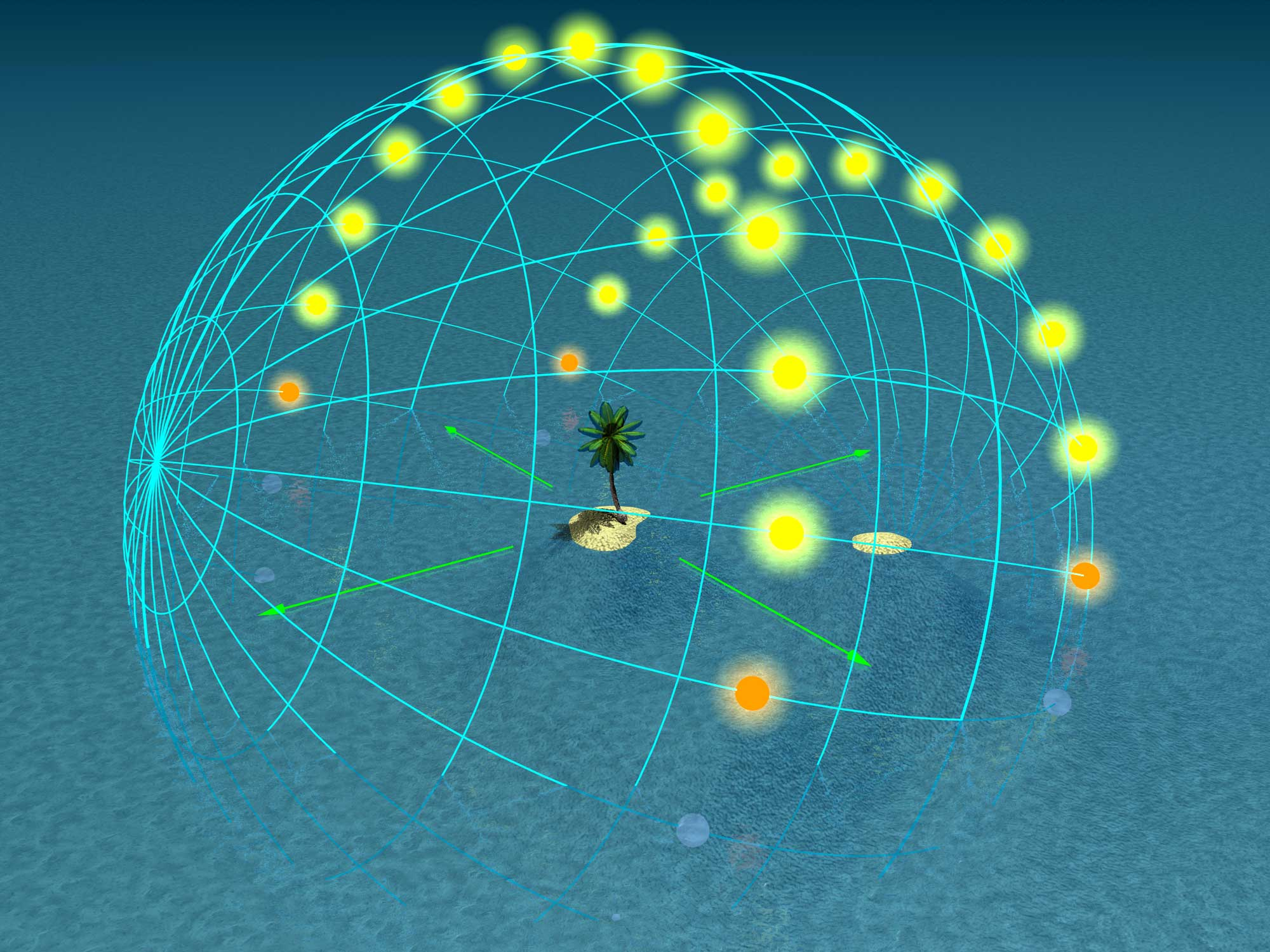 The day arc of the Sun, every hour, in the two solstices as seen on the celestial dome from 20° latitude. Also showing 'twilight suns' down to -18° altitude.